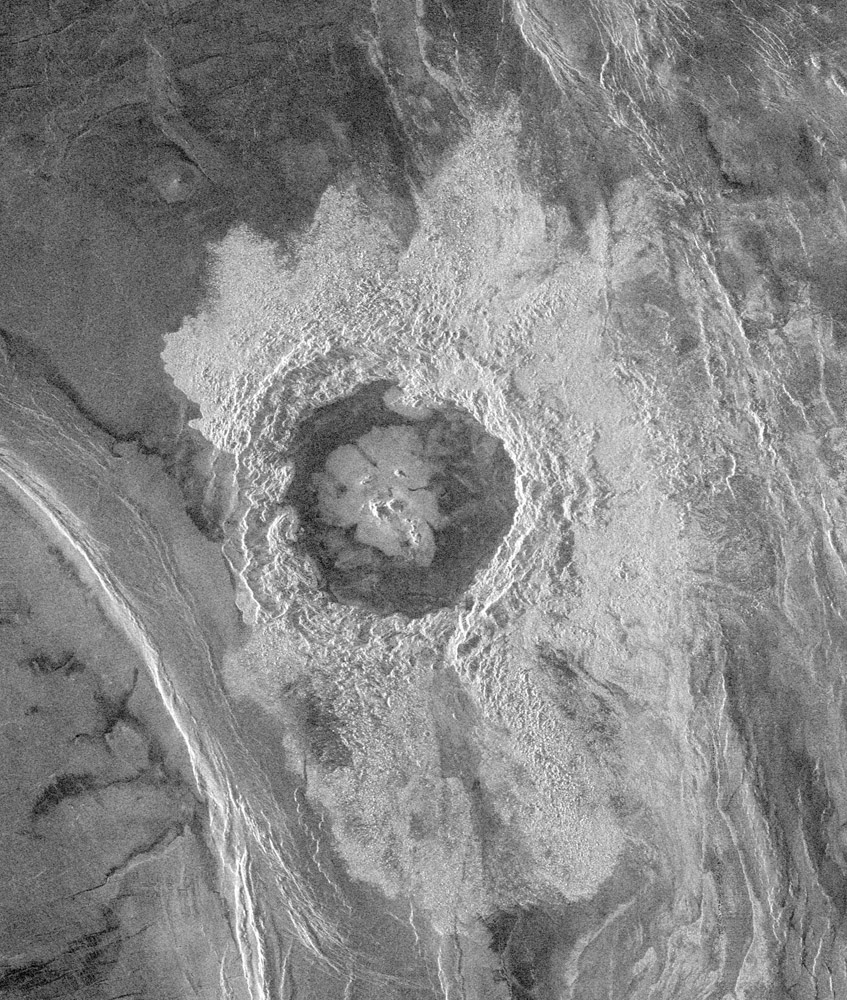 This Magellan image is centered at 74.6 degrees north latitude and 177.3 east longitude, in the northeastern Atalanta Region of Venus. The image is approximately 185 kilometers (115 miles) wide at the base and shows Dickinson, an impact crater 69 kilometers (43 miles) in diameter. The crater is complex, characterized by a partial central ring and a floor flooded by radar-dark and radar-bright materials. Hummocky, rough-textured ejecta extend all around the crater, except to the west. The lack of ejecta to the west may indicate that the impactor that produced the crater was an oblique impact from the west. Extensive radar-bright flows that emanate from the crater's eastern walls may represent large volumes of impact melt, or they may be the result of volcanic material released from the subsurface during the cratering event. Image Note: F-MIDR.75N177, MRPS 37483, 'The Face of Venus' (NASA SP-520) Fig. 4.19